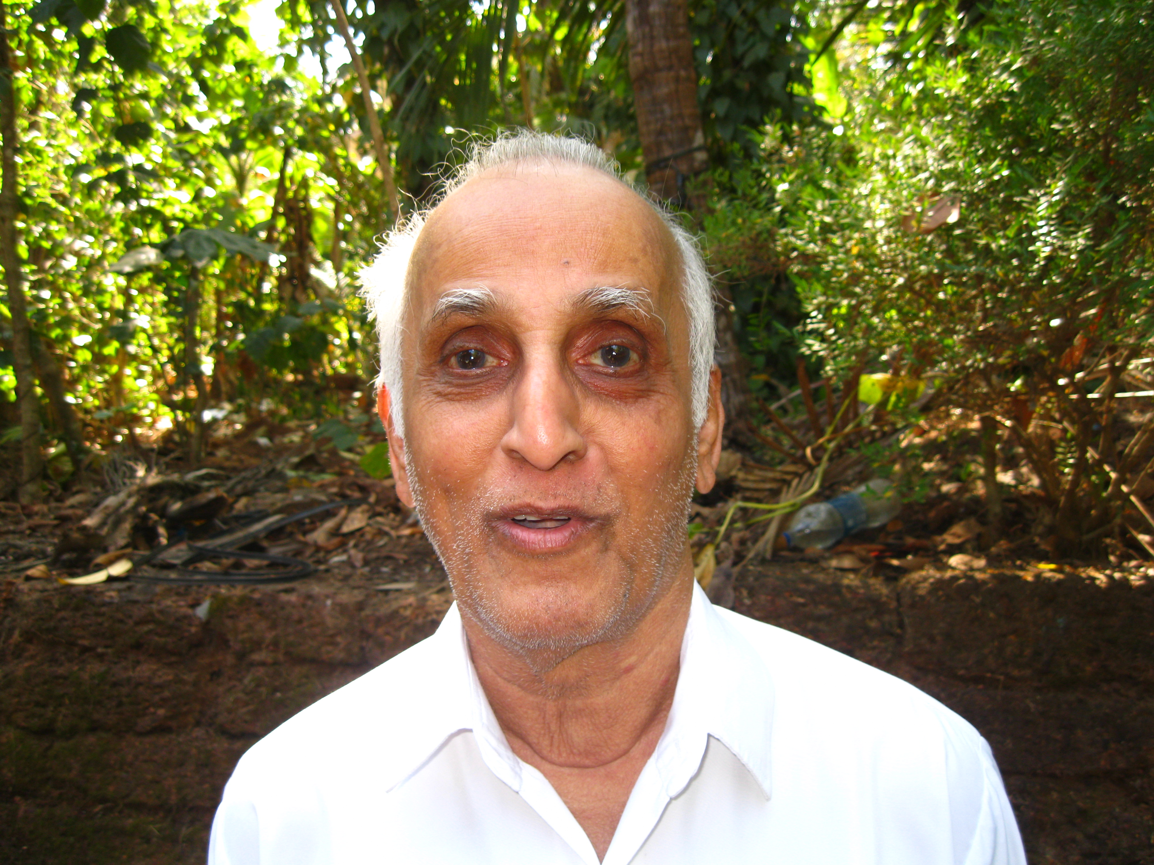 folklorist in Kerala